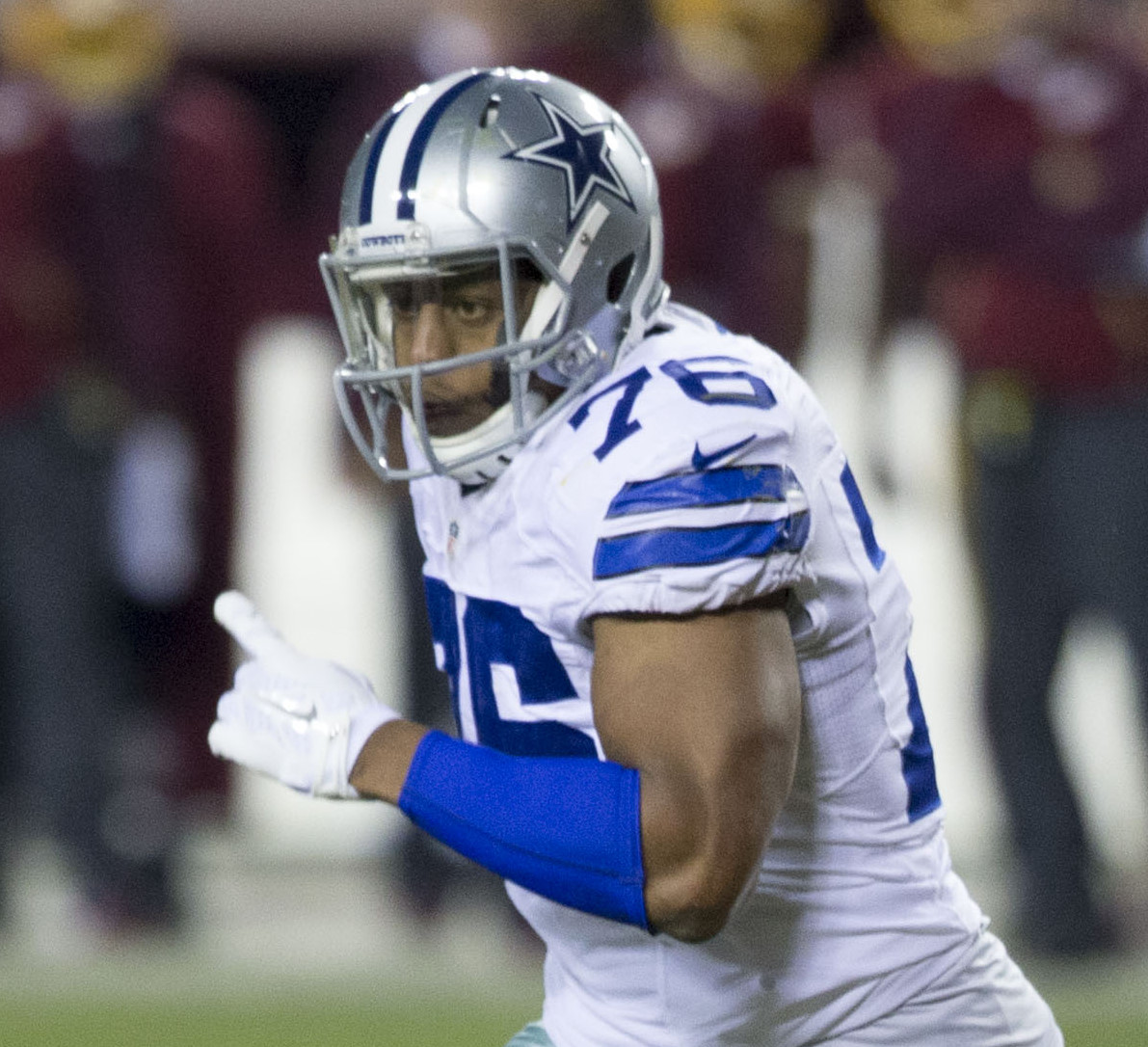 Dallas Cowboys defensive end, Greg Hardy, playing against the Washington Redskins on December 7, 2015.